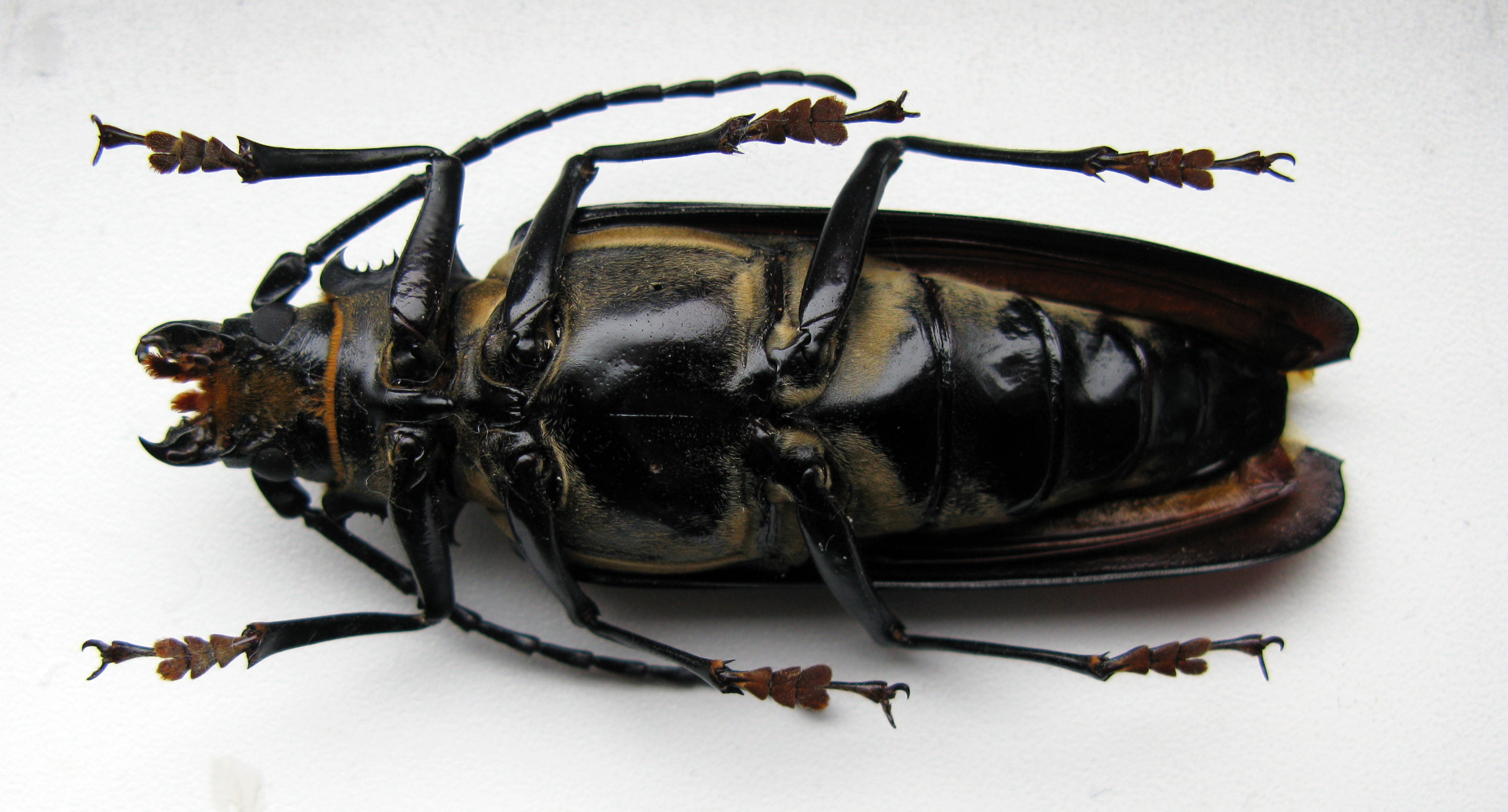 Callipogon_relictus_female